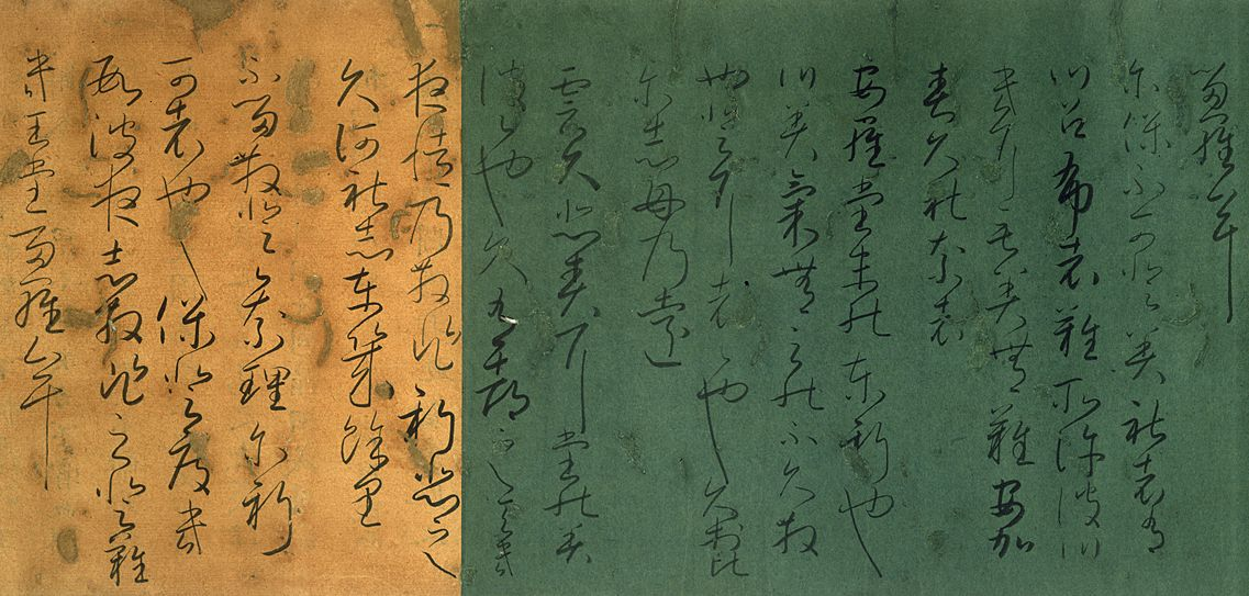 Part of the Akihagi-jō (秋萩帖) from the 10th century by Ono no Michikaze. One handscroll, ink on colored paper. 24.0cm x 842.4cm. Located at the Tokyo National Museum, Tokyo.